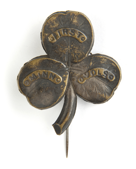 United States Army infantry corps badge made of stamped brass was worn during the Civil War by Sergeant Chesley Billings Tirrell of the 1st Minnesota Volunteer Infantry Regiment, Company C. Raised panels on the leaves of the clover are marked "FIRST/ MINN/ VOLS". Tirrell participated in all of the 1st Minnesota's battles. After the regiment returned home in 1864, Tirrell re-enlisted as a first lieutenant with the 1st Minnesota Battalion, Company A. At the Second Battle of Petersburg, he received a bullet to the wrist that paralysed his left hand. Tirrell continued to serve in the commissary department until the end of the war.